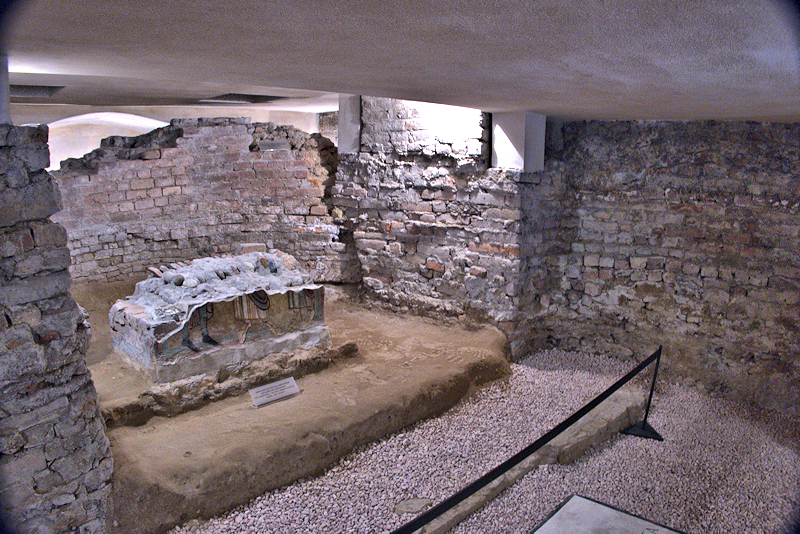 The walls of the ancient church of Duomo di Crema (Italy)